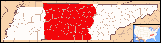 The Diocese of Nashville in the Catholic Church encompasses the counties in central Tennessee, USA.